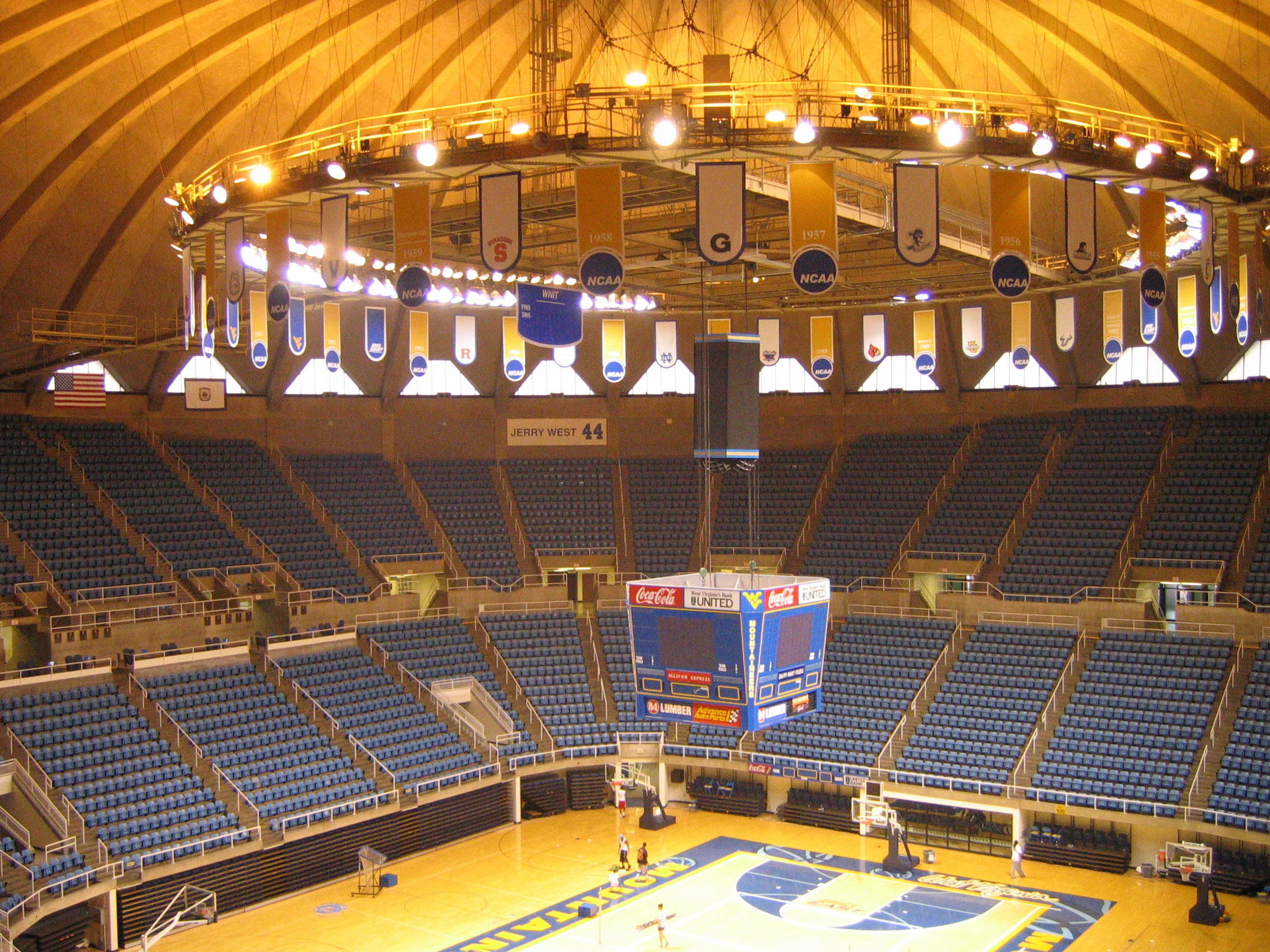 Interior, Summer 2007.